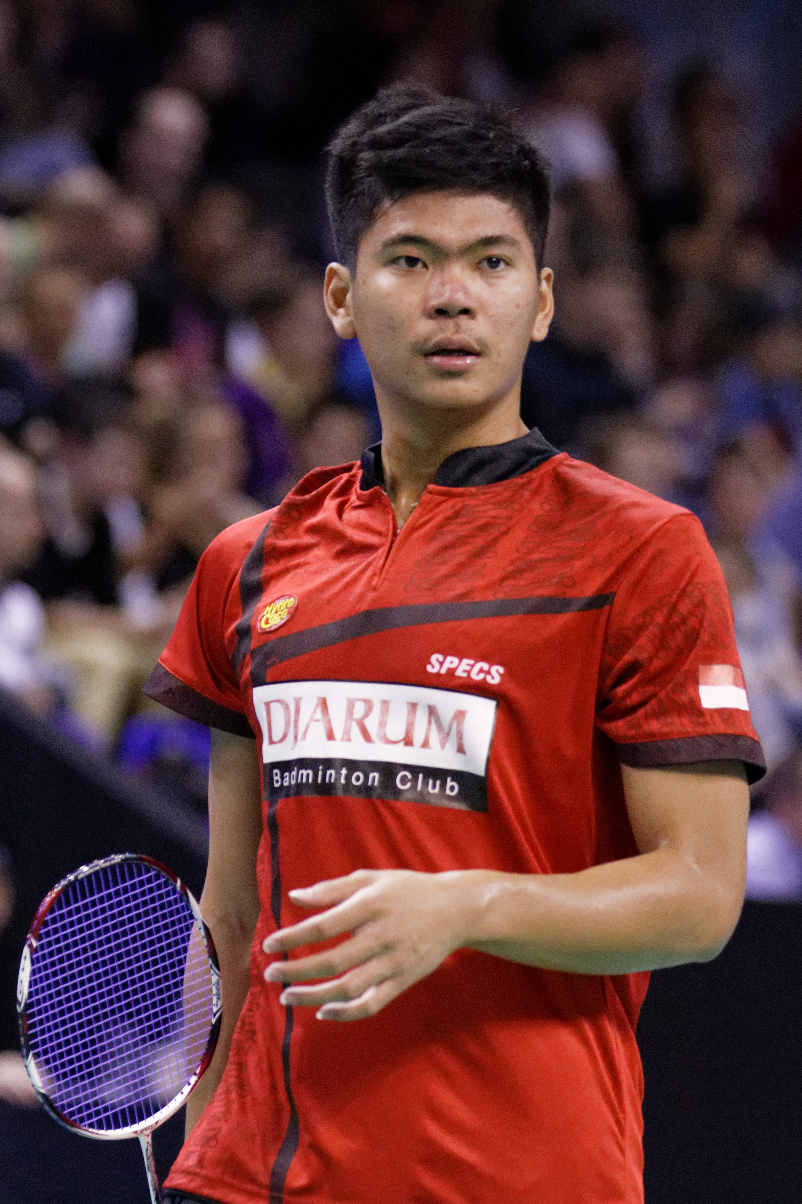 2013 French open. Mixed's doubles eightfinal. Kim Ki-jung and Kim So-young vs Praveen Jordan and Vita Marissa.